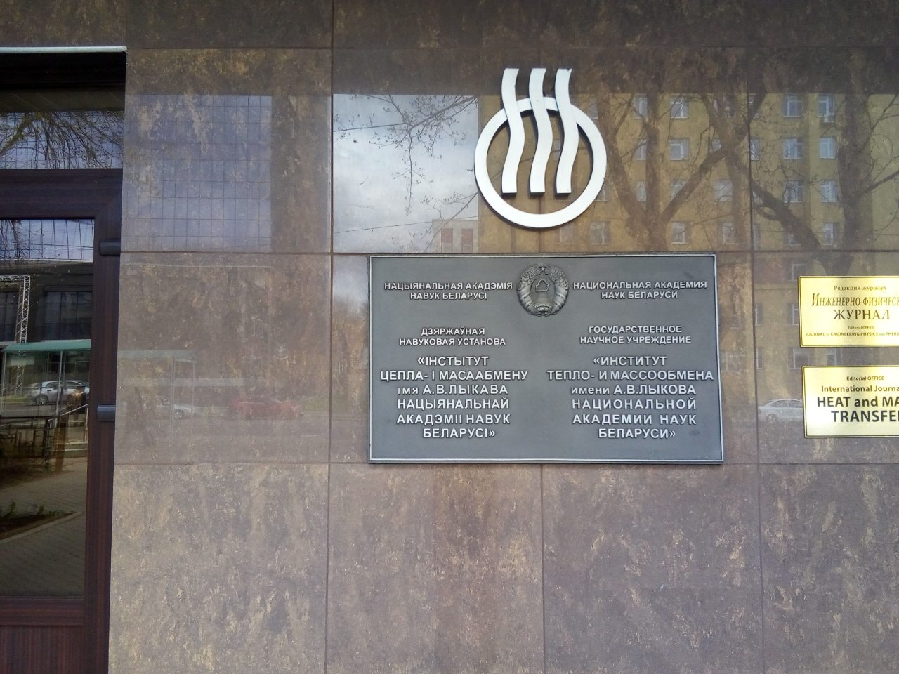 Plaque on the Heat and Mass Transfer Institute of the National Academy of Sciences of Belarus (15 Broŭki Street, Minsk; 20th of April, 2019)